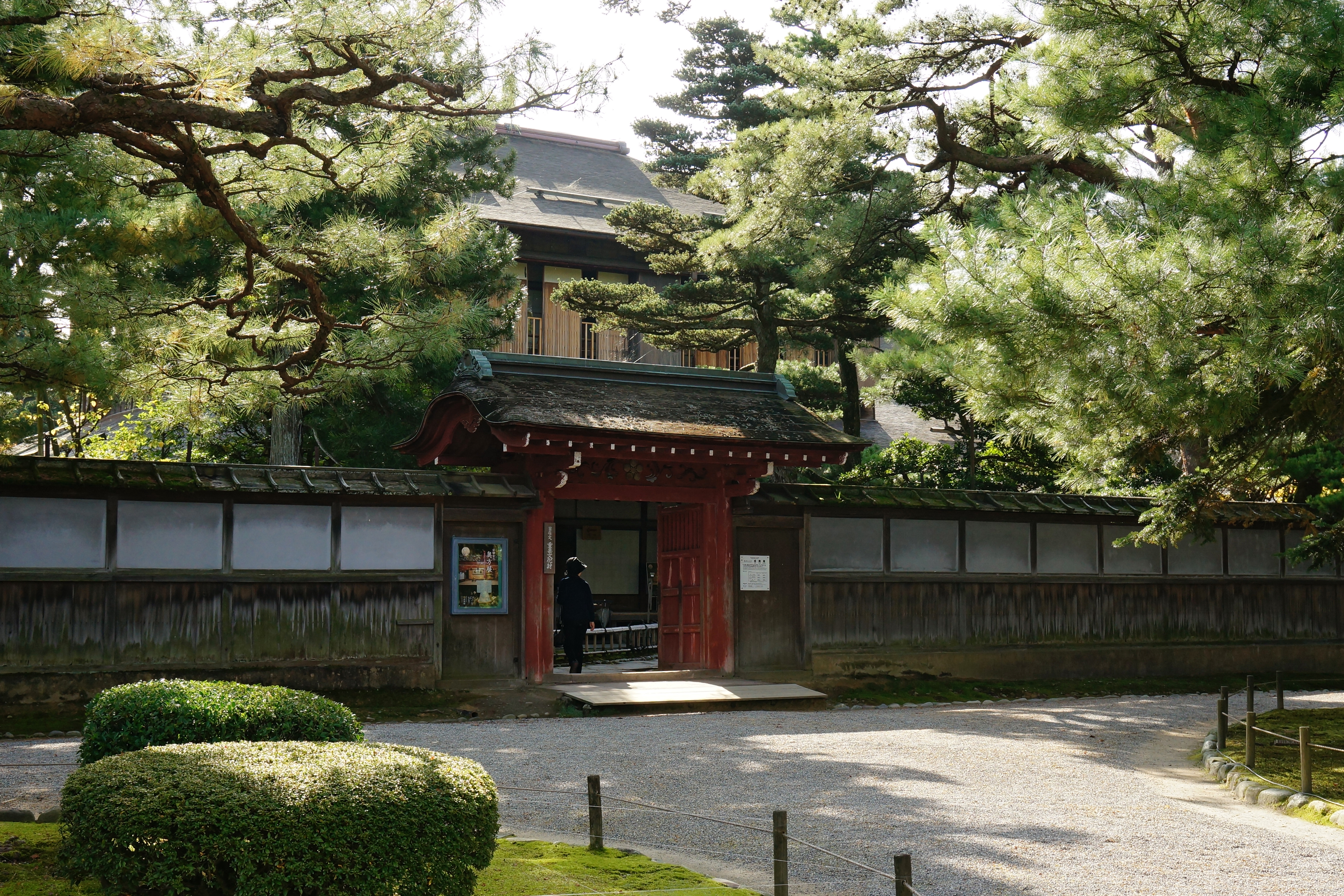 At Seisonkaku in Kanazawa, Ishikawa prefecture, Japan.